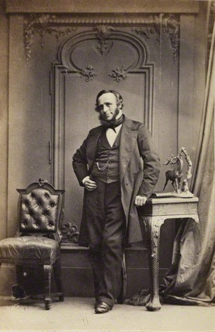 Photo of John Balsir Chatterton (cropped from File:John Balsir Chatterton by Camille Silvy 2.jpg)